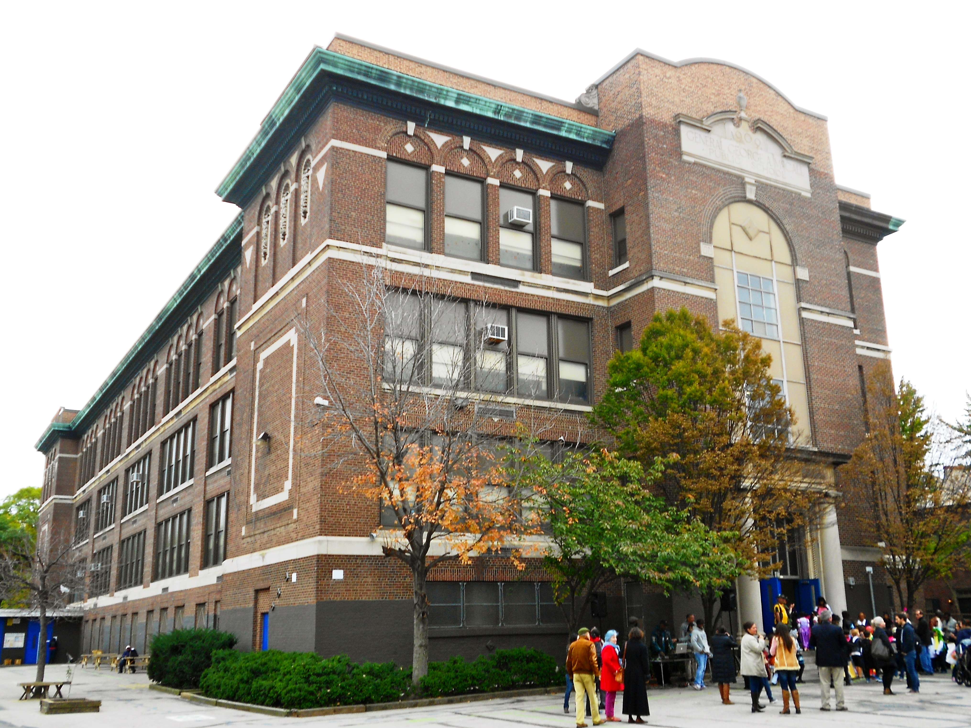 General George A. McCall School at 325 S 7th Street, Philadelphia, PA. Taken on Halloween, so some costumes might be visible.